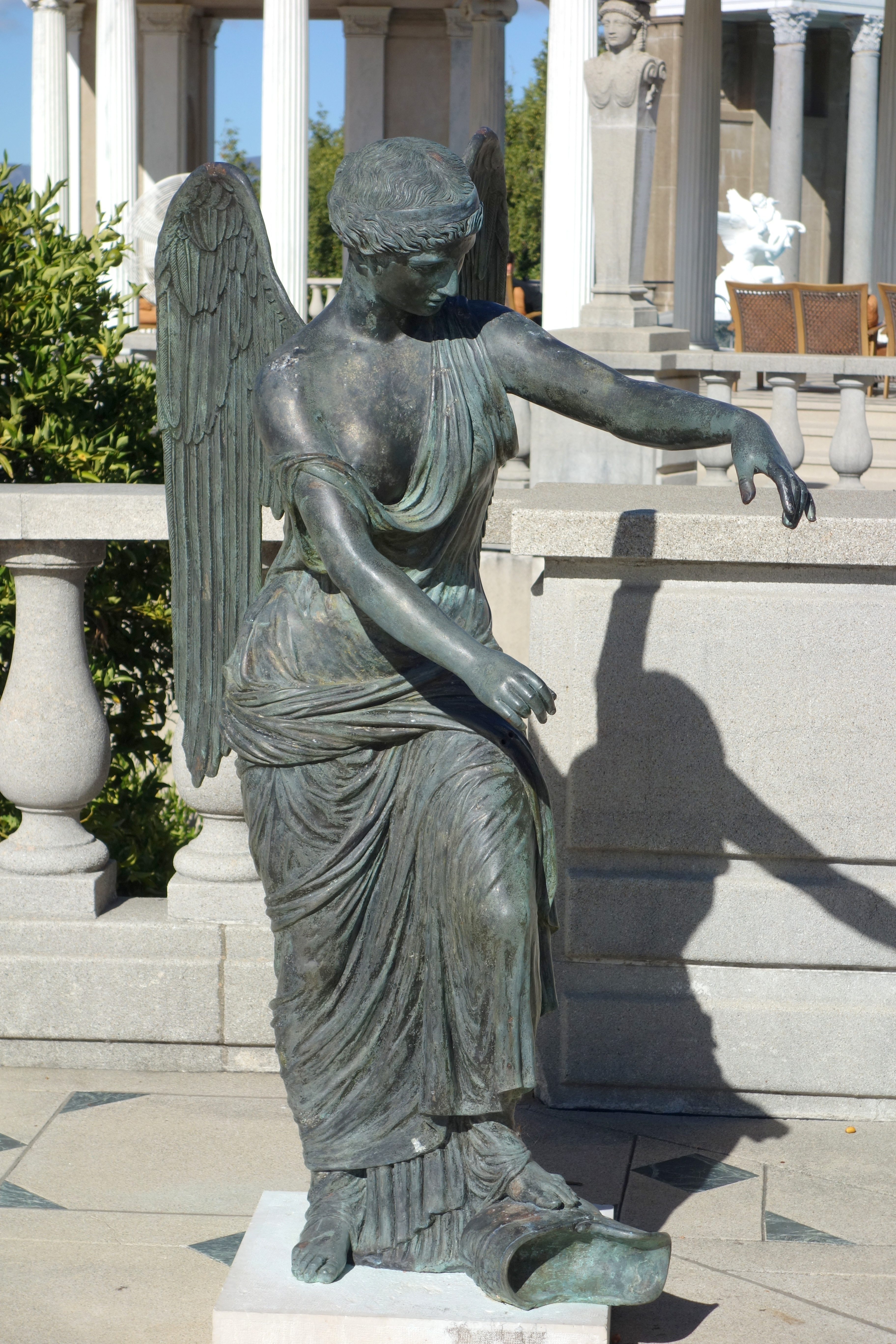 Sculpture at Hearst Castle, San Simeon, California, USA. Photograph was permitted without restriction in and around the castle. All artwork is old enough so that it is in the public domain.